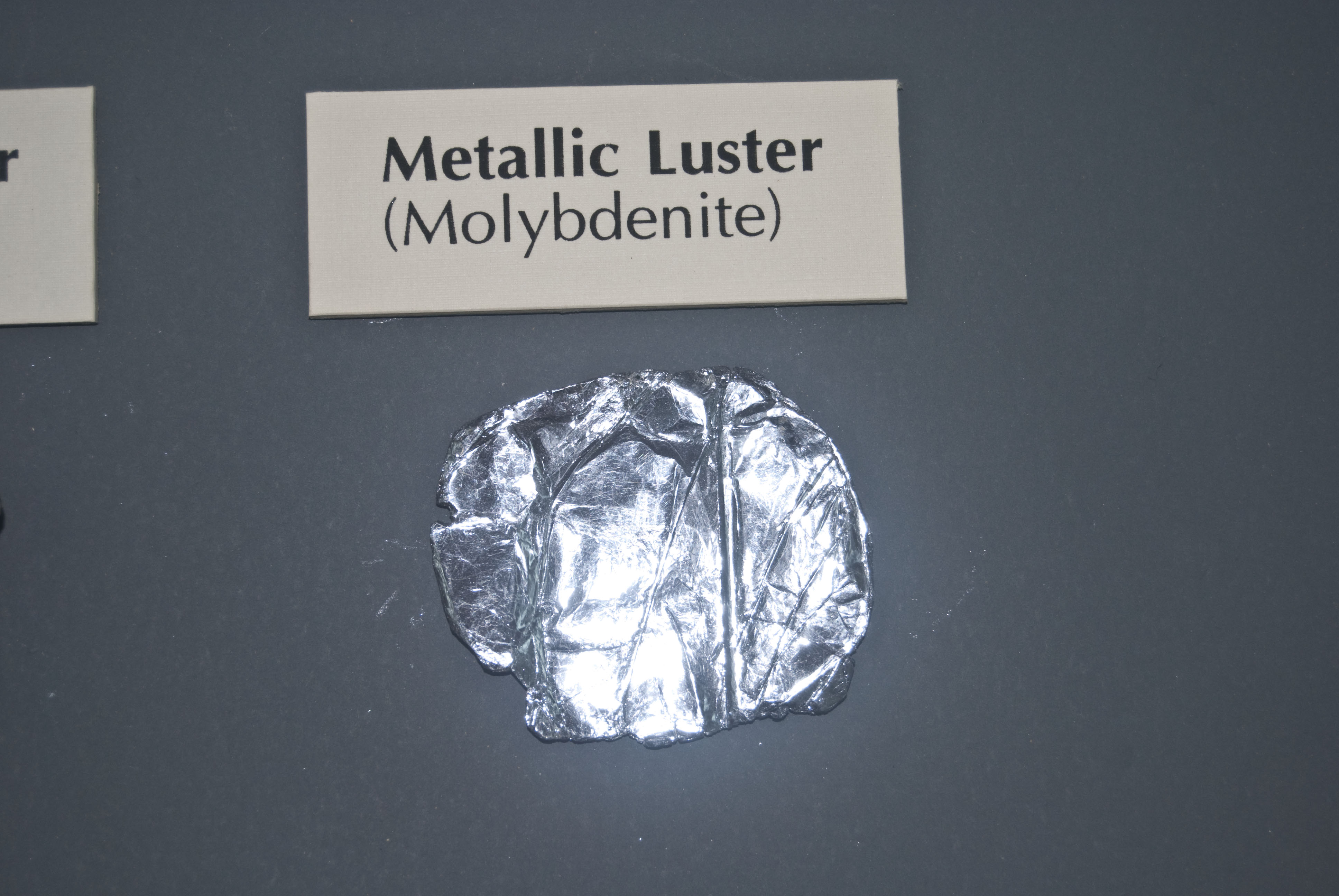 Norman and Gertrude Pendleton mineral collection Metallic Luster Molybdenite